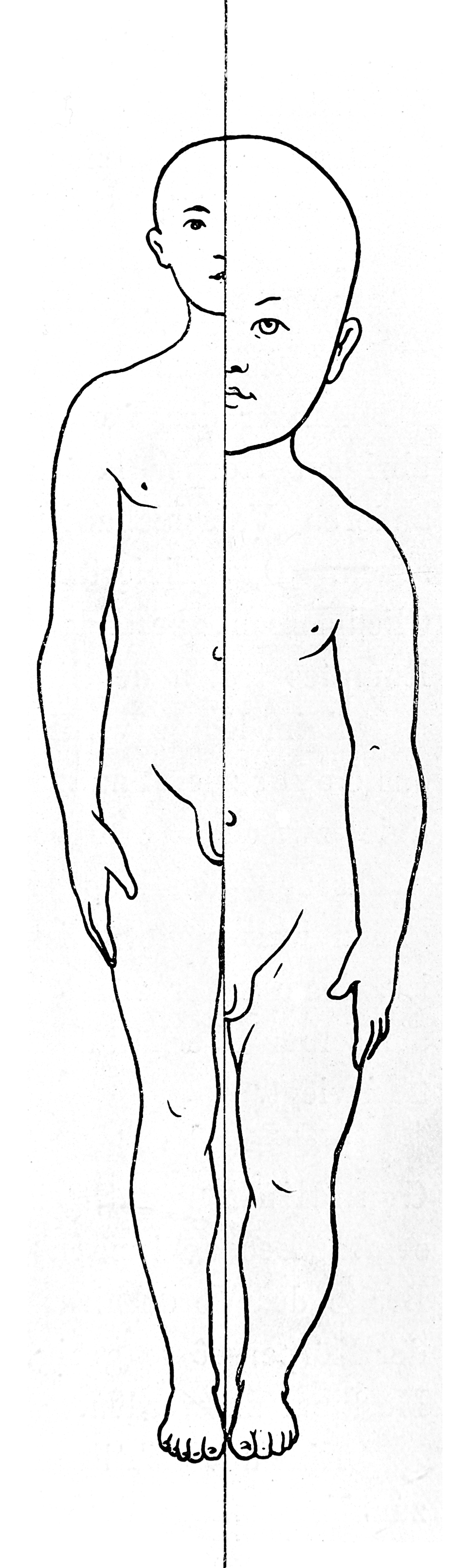 Male anatomical figure, showing proportions - child to man. Wellcome Images Keywords: Anatomy; Proportion